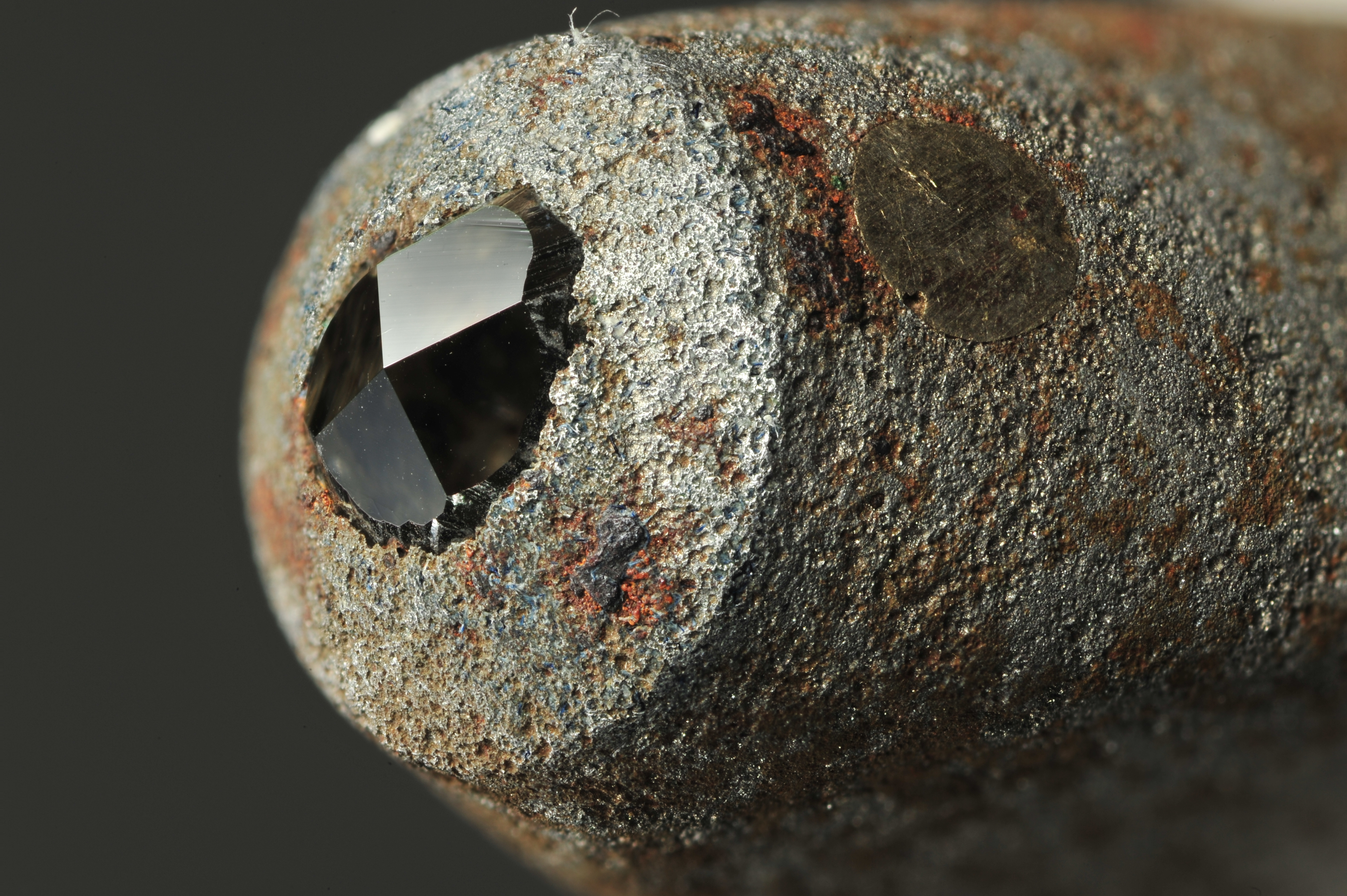 Pyramidal diamond anvil impactor on a Vickers hardness tester